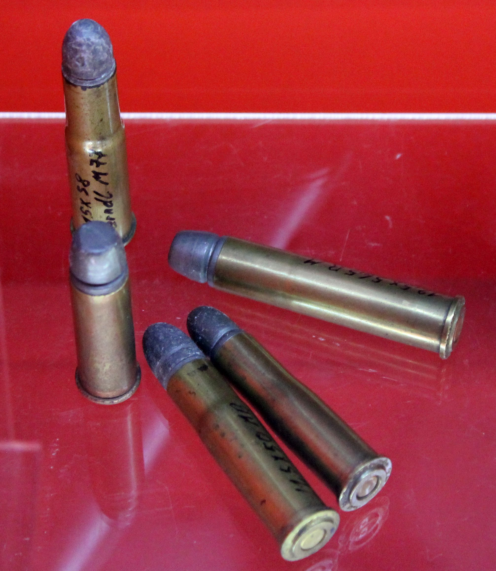 Werndl 11x58mmR (upper left), 11x50mmR Werder (left), 12,5x56,5mmR Mauser(upper right), unidentified (left)